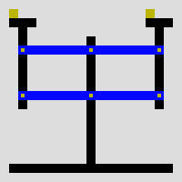 A sketch of a Roberval balance with equal masses. The masses don't need to be centered on the plates.